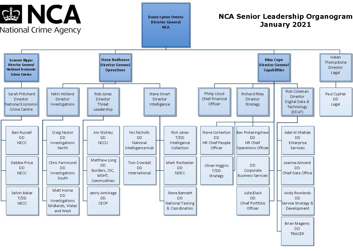 Chart showing the senior management structure of the National Crime Agency